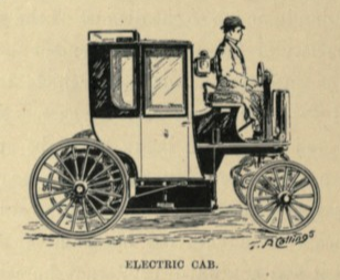 Parlour's hansom p. 272 Omnibuses and Cabs